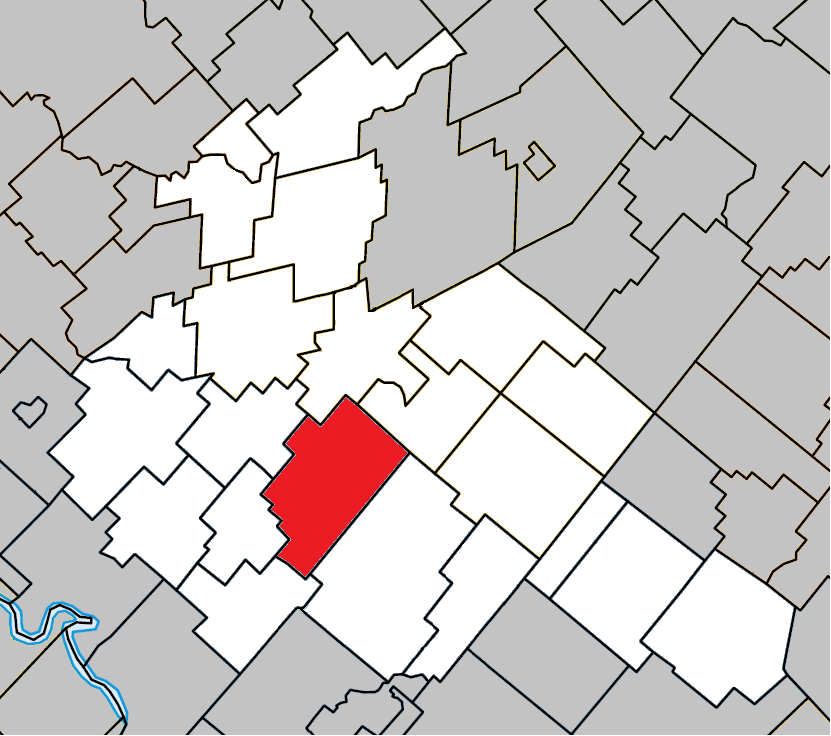 Location of Warwick, Quebec within Arthabaska Regional County Municipality.